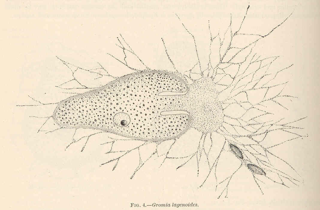 Gromia lagenoides Subject: Gromia Tag: Invertebrates